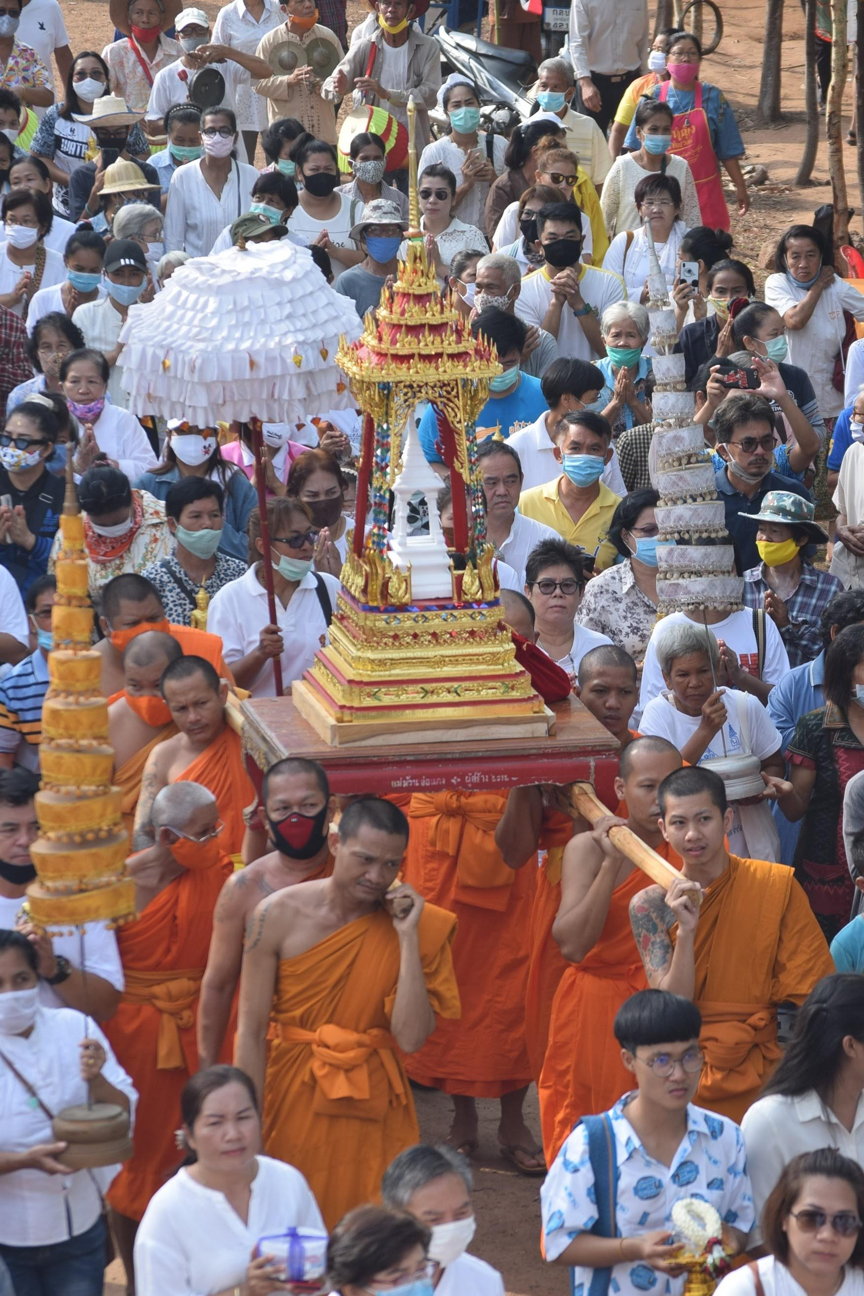 Phra Sambuddha Muni Siri-Uttaradit also known as The Great Buddha of Uttaradit. (Thai: หลวงพ่อใหญ่พระสัมพุทธมุนี สิริอุตรดิตถ์มหาปฏิมากร; Eng: Phra Sambuddha Muni Srisukhothai Triratanasavangkaburibapith Siri Uttaradit Mahapatimakara) Located in the Wat Kungtaphao temple in Uttaradit Province, this statue stands 19 m (63 ft) high, and is 10 m (33 ft) wide. Construction commenced in 2019, and was completed in 2020. It is made of concrete. The Buddha is in the seated posture called Maravijaya Attitude.